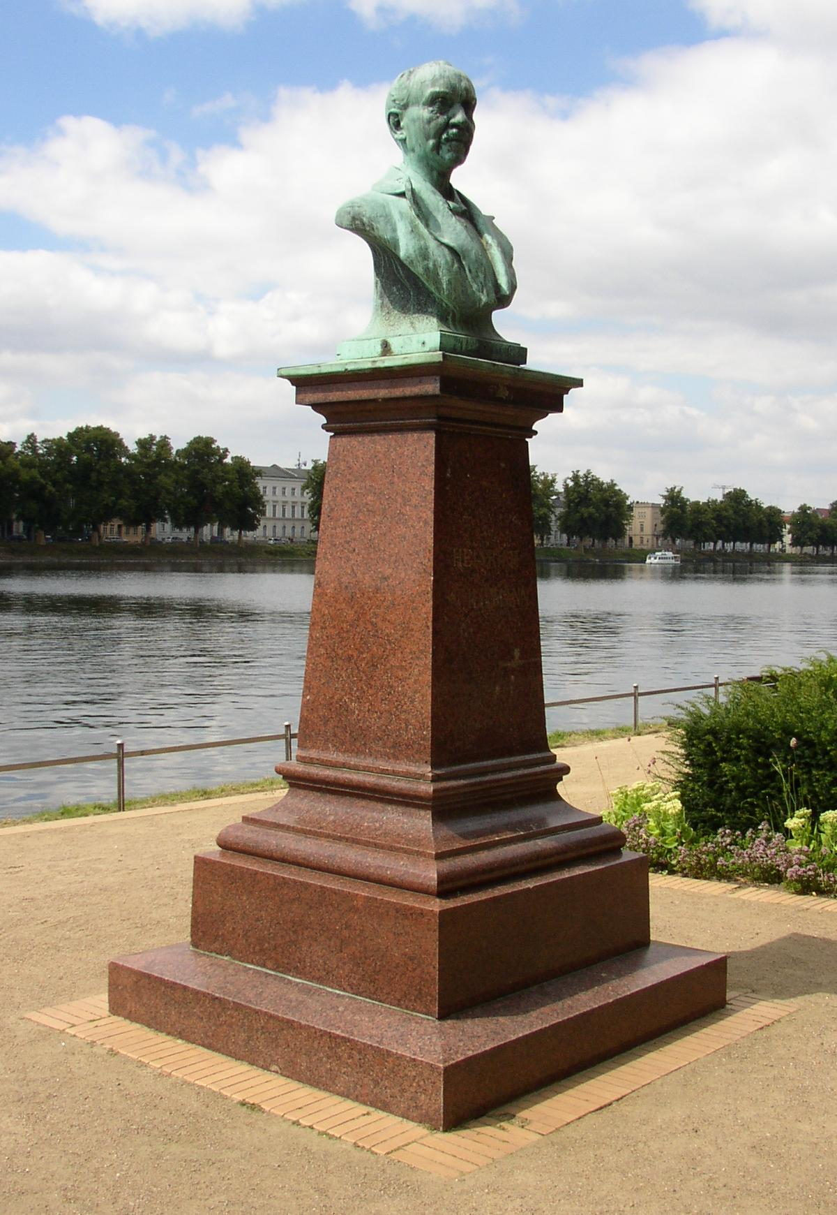 Memorial (by Hugo Berwald) for Heinrich Schliemann in Schwerin in Mecklenburg-Western Pomerania, Germany (bust stolen and destroyed in 2011)